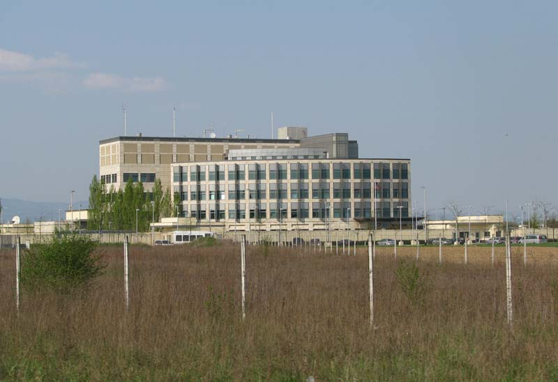 US embassy Zagreb Croatia